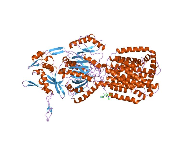 Cartoon representation of the molecular structure of protein registered with 1oye code.